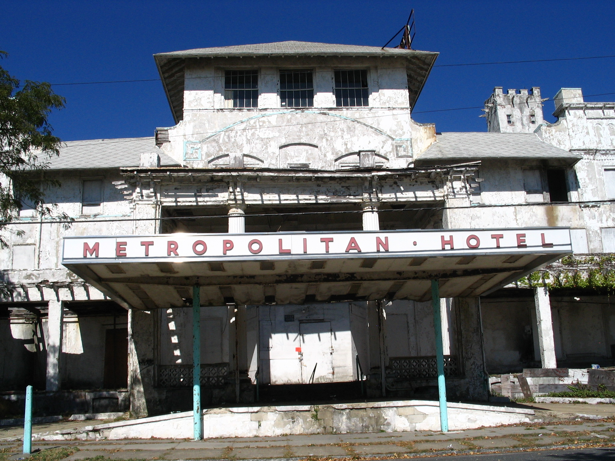 South view of Metropolitan hotel, Asbury Park, NJ before it's slated demolition